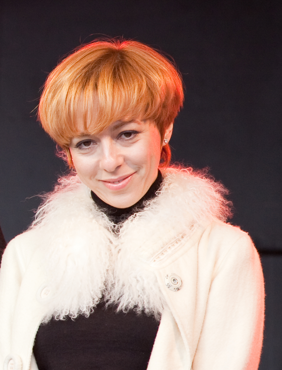 Russian TV presenter Mariana Maksimovskaya at the Russian Maslenitsa festival in Potters Field Park, Tower Hill, London.